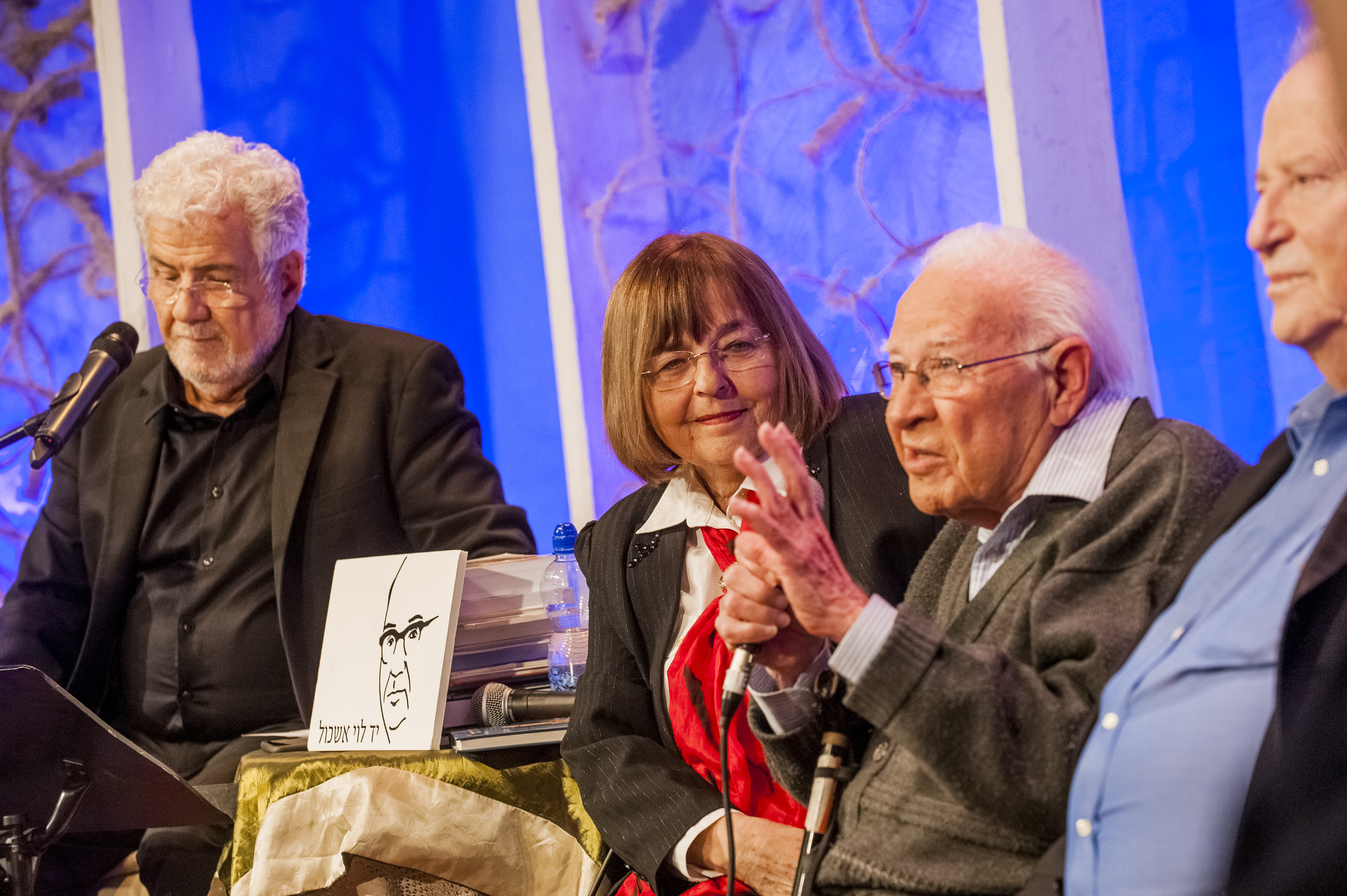 Yossi Alfi, Prof. Ofra Nevo, Aharon Yadlin and Avraham Shochat speaking at an event hosted by Yad Levi Eshkol, 2015.